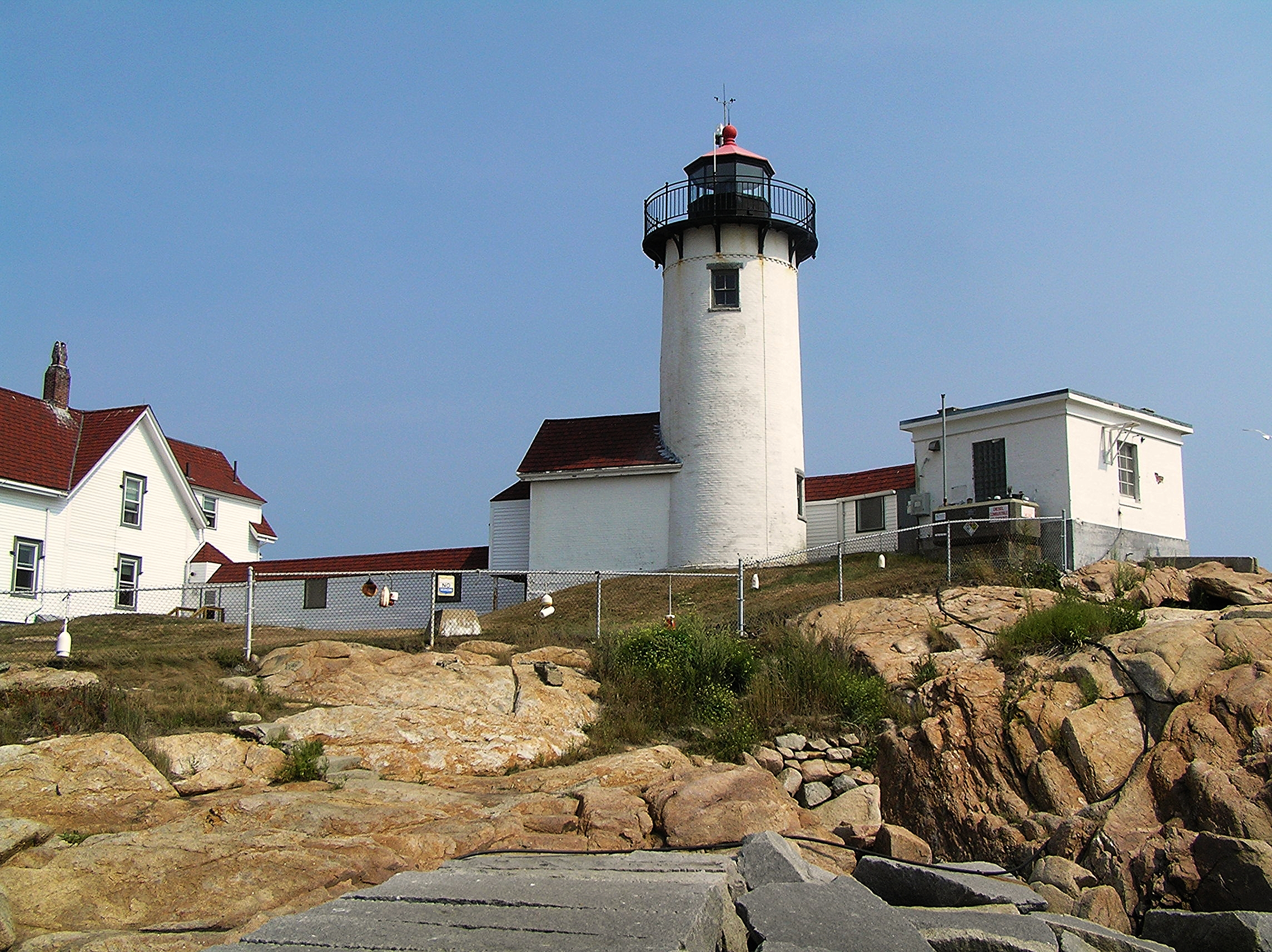 Gloucester, Massachusetts. The light station is closed to the public, but there is a parking lot nearby and the breakwater next to the lighthouse is open all year, with good views of the lighthouse.